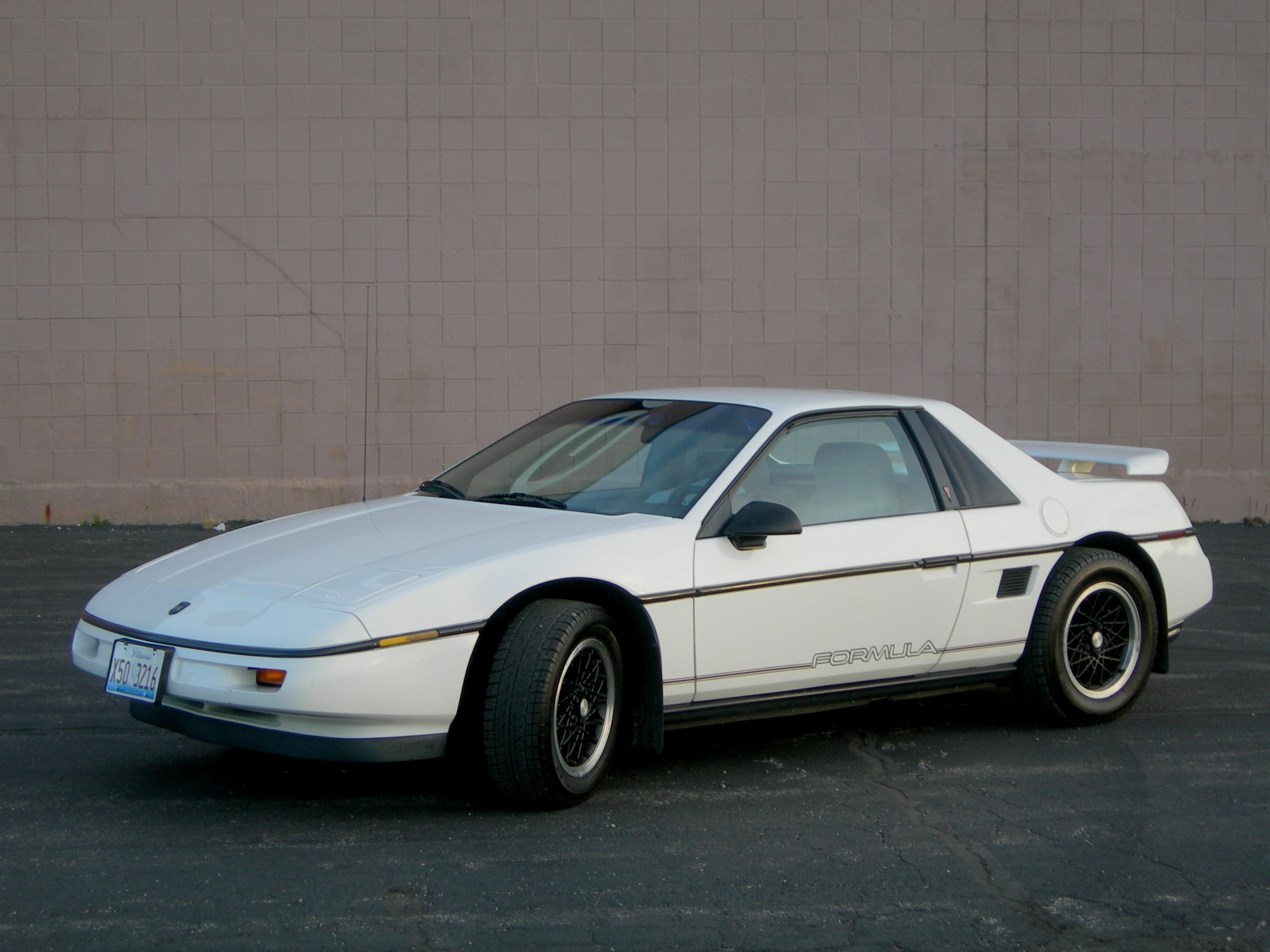 1988 fiero formula. Taken at Lakehurst Cinema.